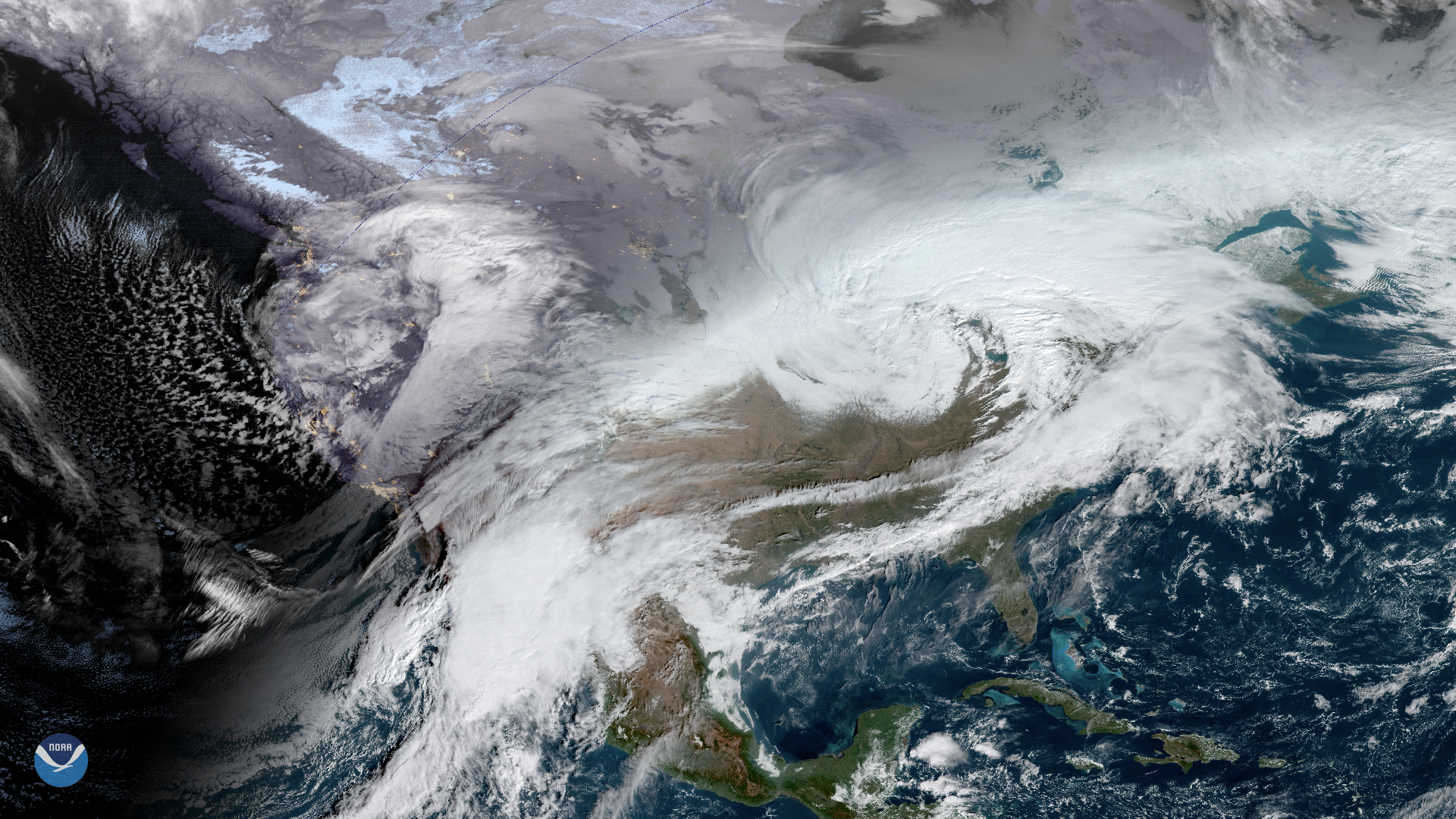 2 winter storms traversing North America, both impacting the United States, one of which is a record bomb cyclone along the West Coast